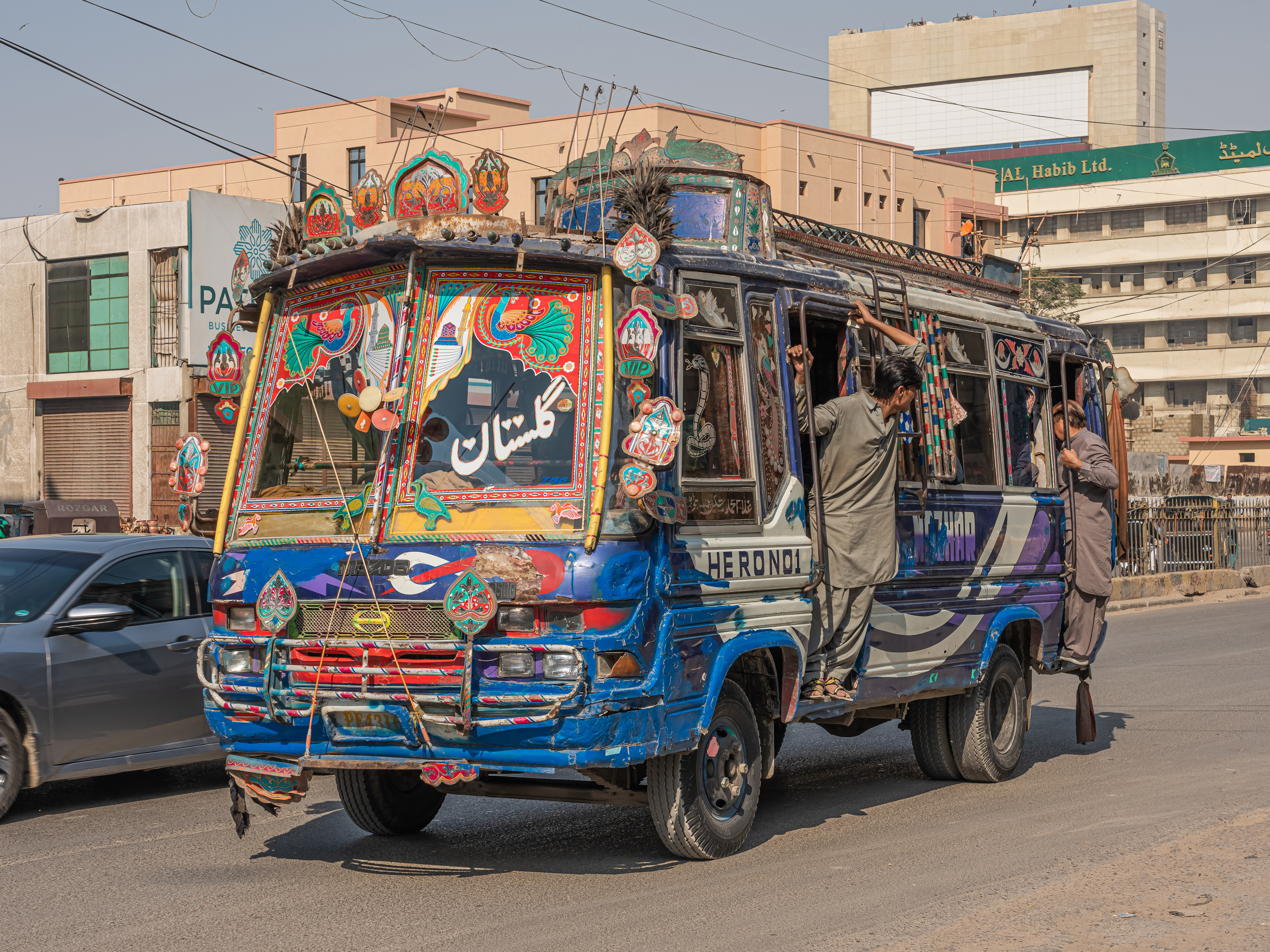 Public bus at M. A. Jinnah Road in Karachi, Pakistan